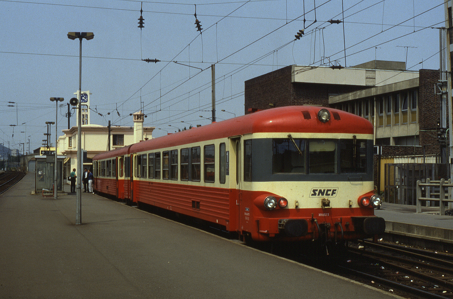 Caravelle DMU set X 4582 seen at Lens on 23 July 1990 on train 77085, 13:34 Lens to Douai.